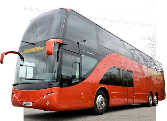 Jumbocruiser 2012 Ayats Bravo sleeper coach JU11BUS